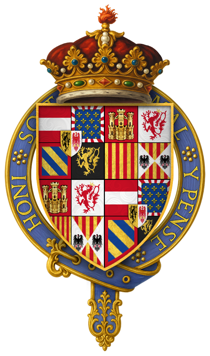 Coat of arms of Ferdinand, Infant of Spain, Archduke of Austria, KG